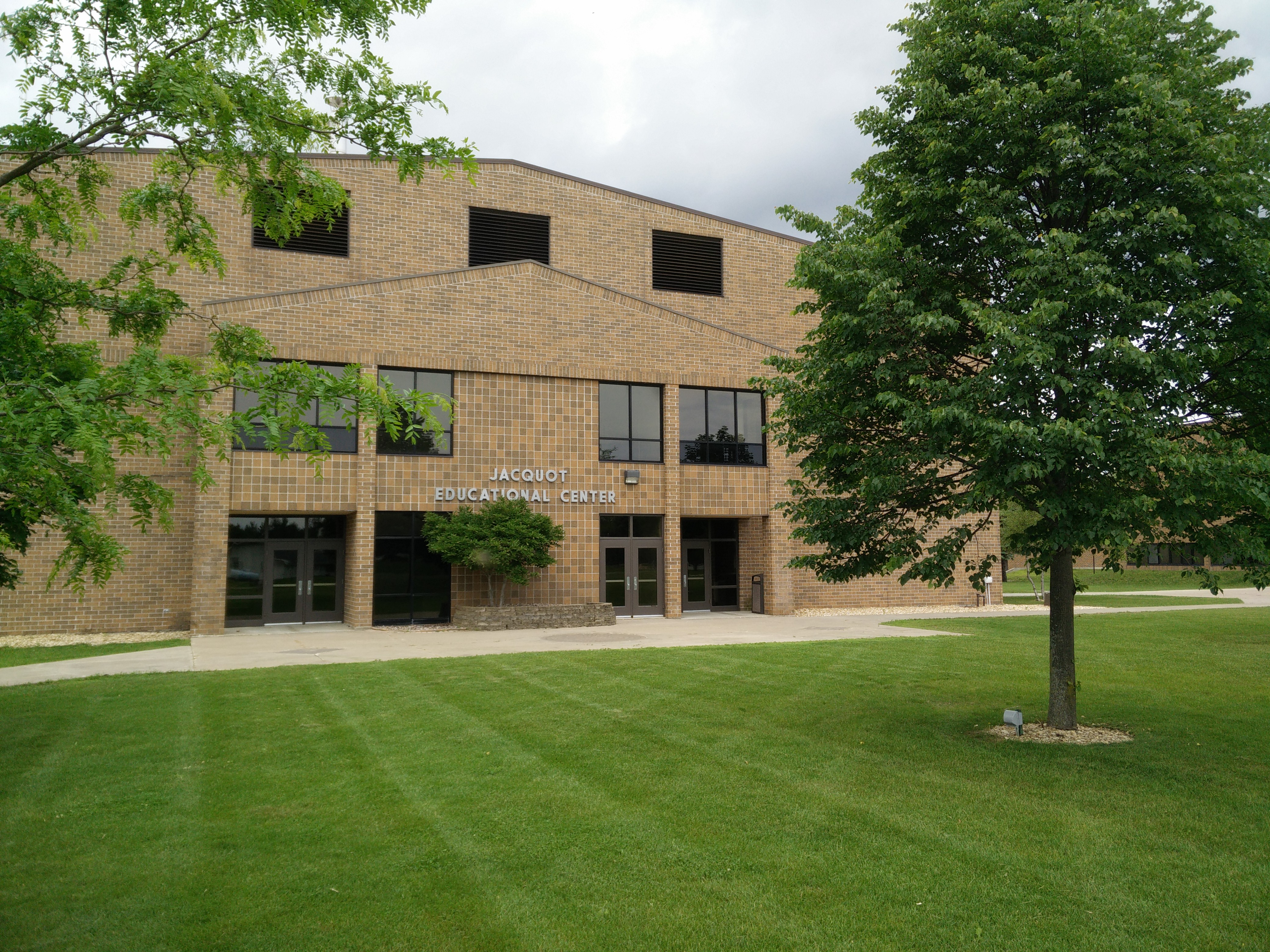 The front doors of the JEC located on the campus of Northland International University in Dunbar, WI.